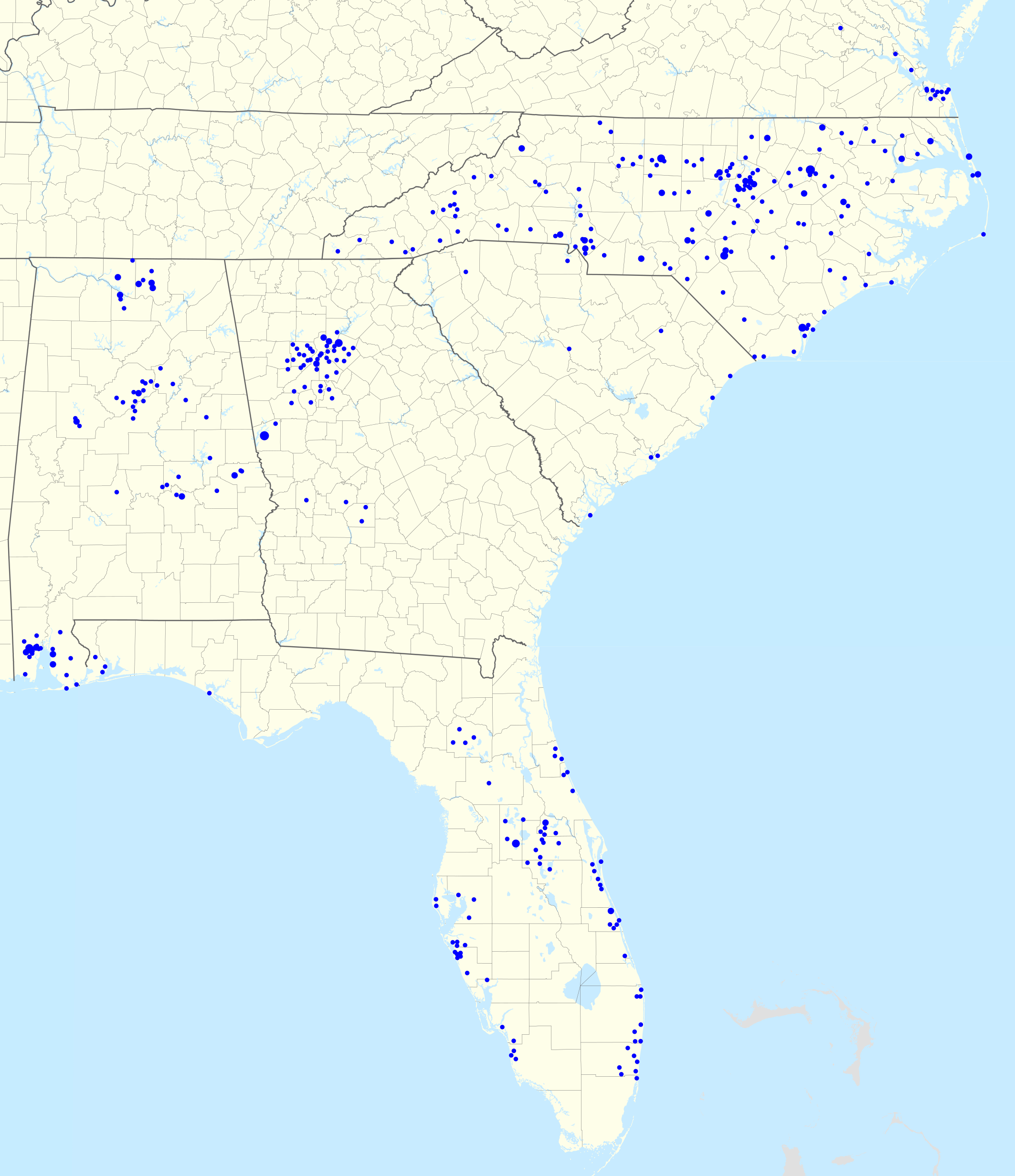 Footprint of RBC Bank as of 28 July 2011.